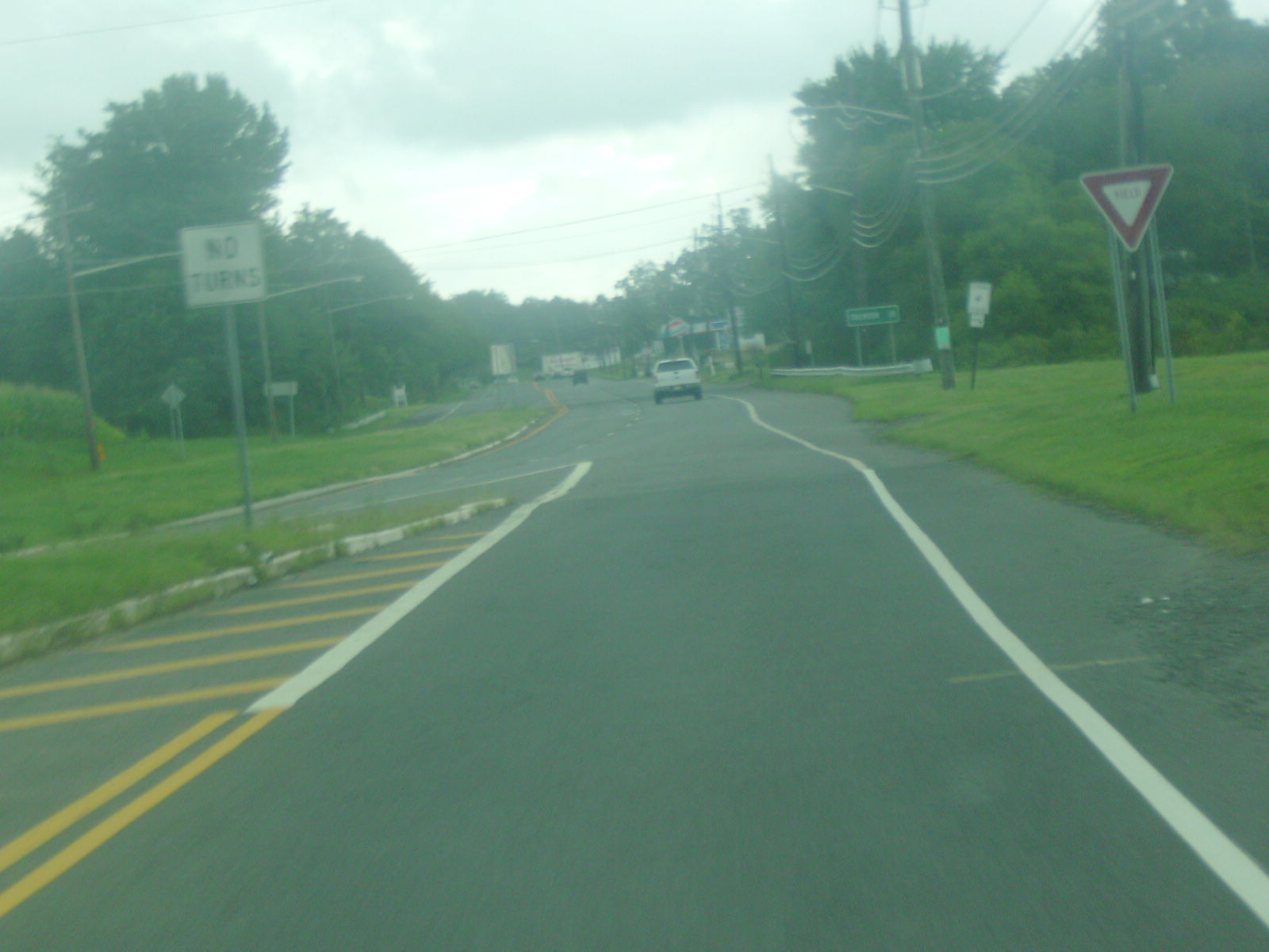 The former northern terminus of New Jersey Route 170 (now Burlington County Route 690) at U.S. Route 206 in Columbus, New Jersey.